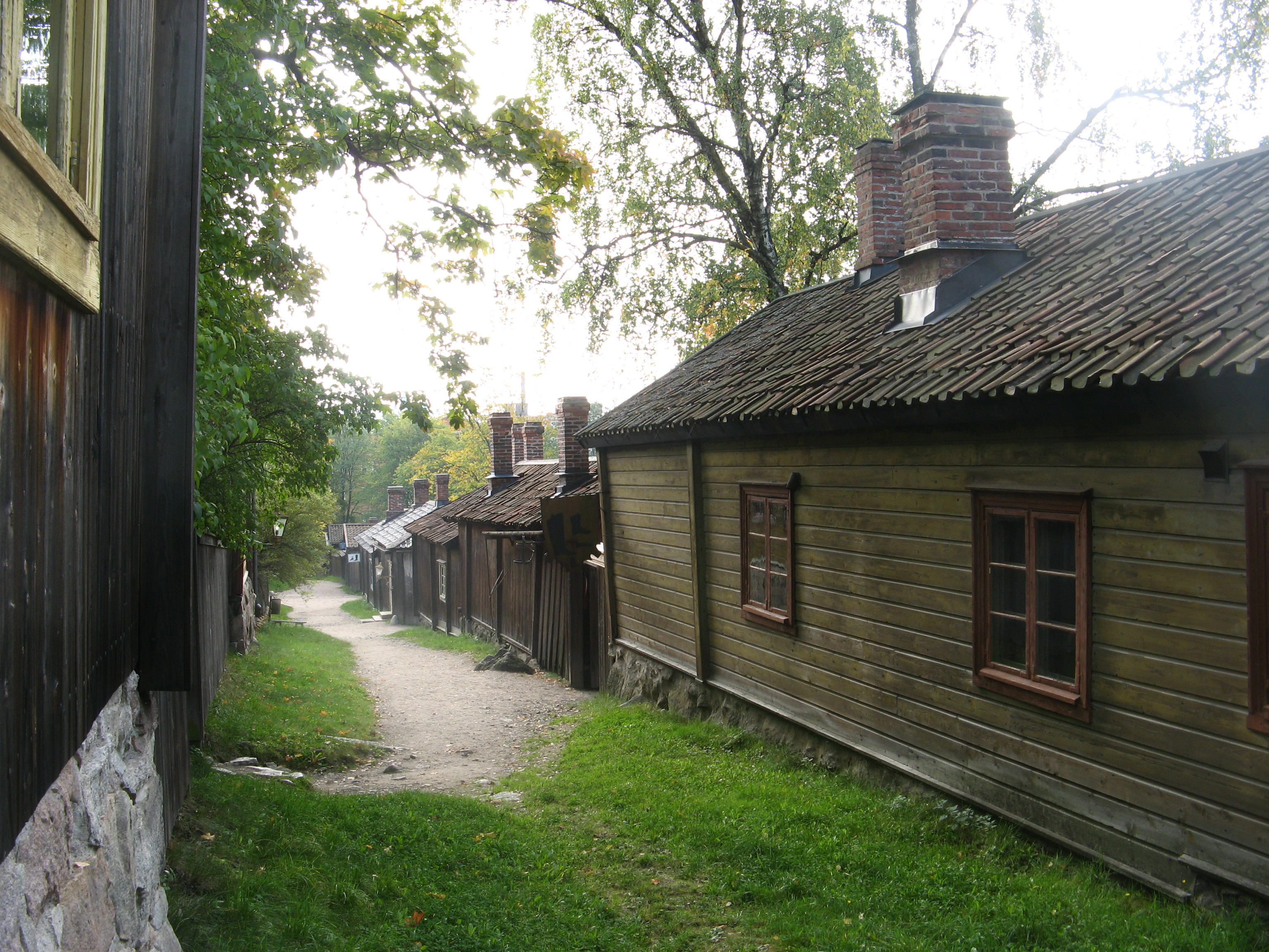 Luostarinmäki Handicrafts Museum in Turku, Finland